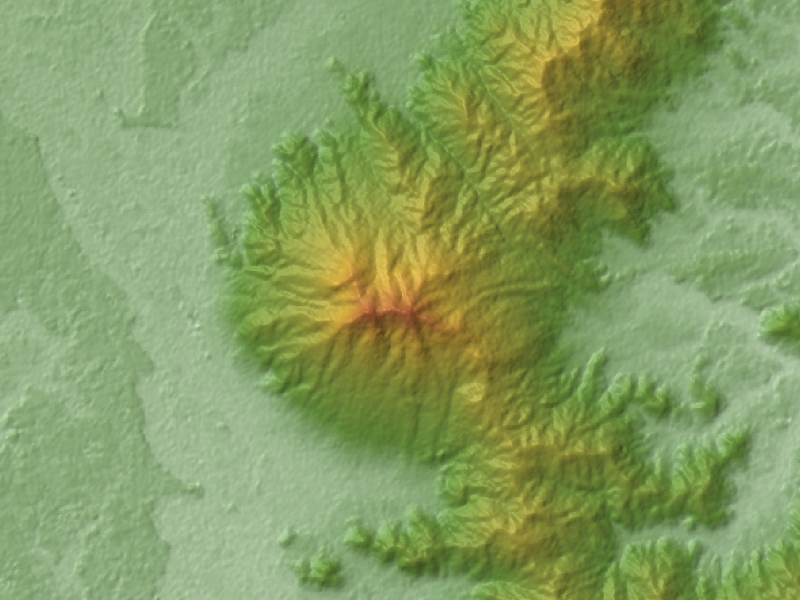 Mount Tsukuba (Tsukuba-san) in Tsukuba, Ibaraki Prefecture, Honshu, Japan.